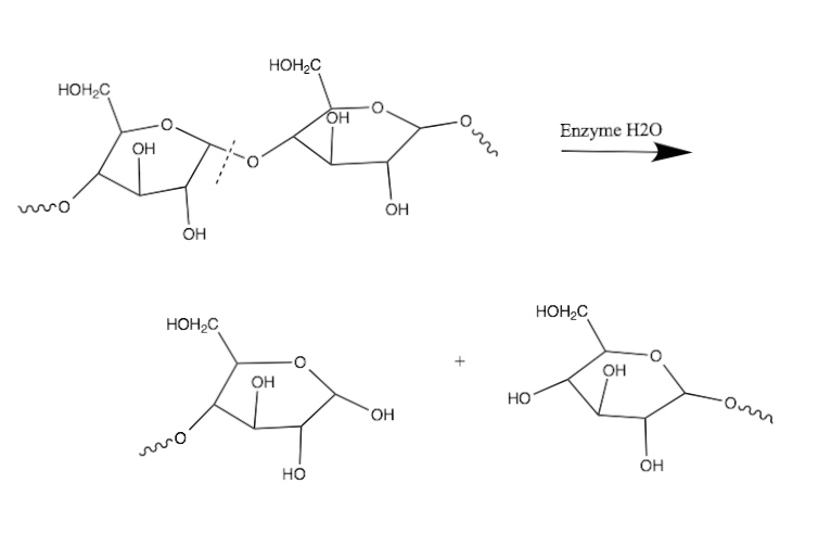 Enzymatic hydrolysis of starch.